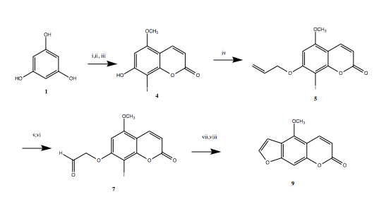 Within eight steps, Bergapten is synthesized.